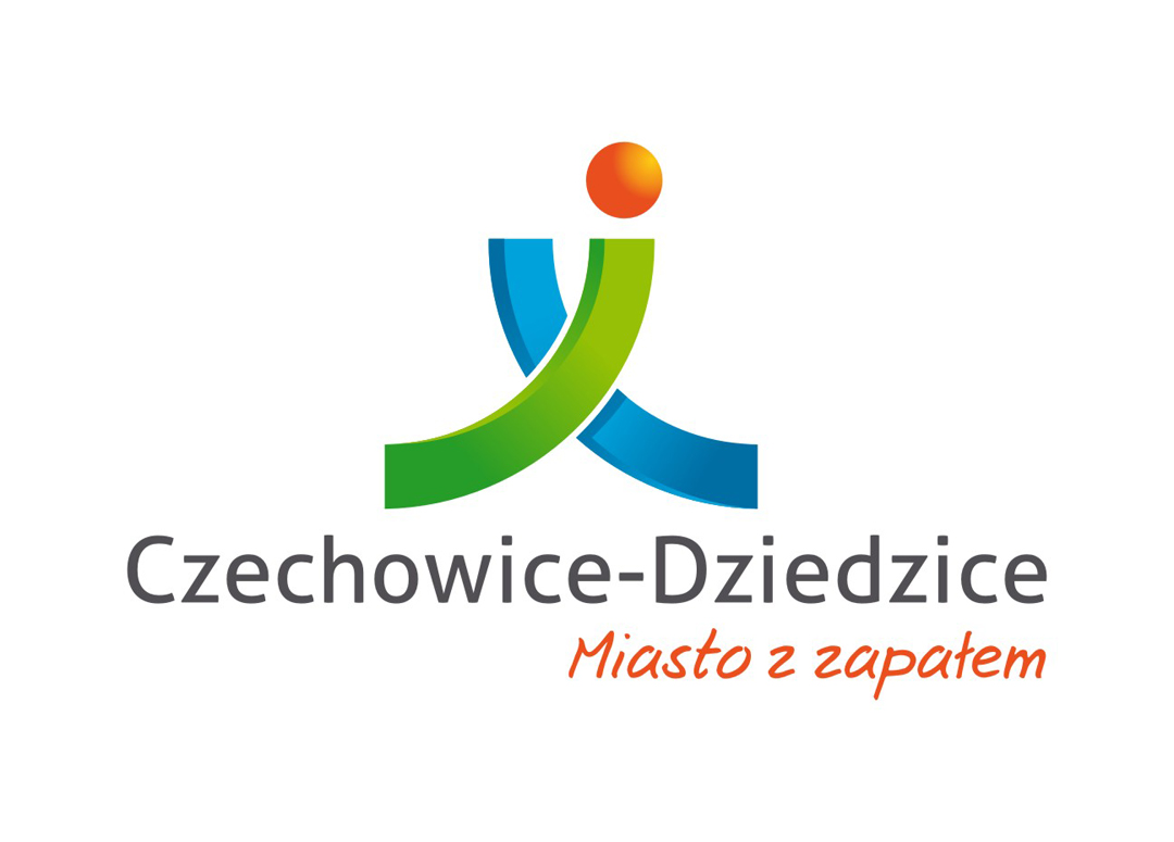 Logo of city Czechowice-Dziedzice